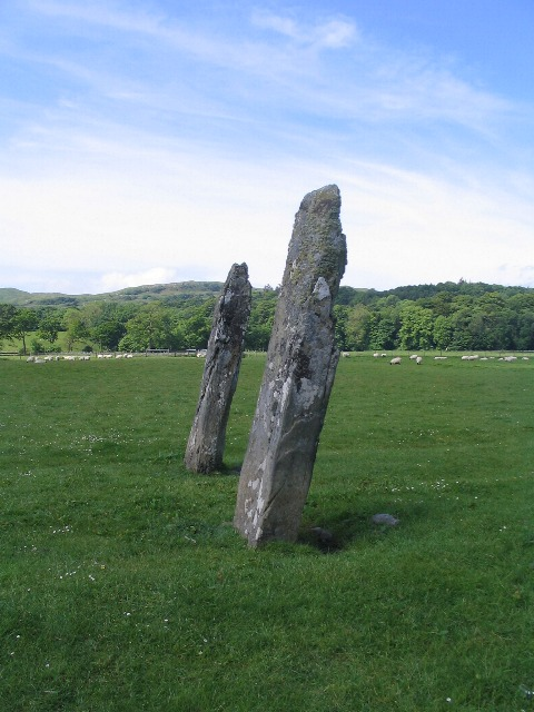 Nether Largie standing stones, southern pair At Nether Largie is a group of standing stones oriented NE-SW with a pair at each end, between which are a five stone group with a decorated stone at the centre, and a four stone group. These two are the southern pair and are angled the same degree from vertical.